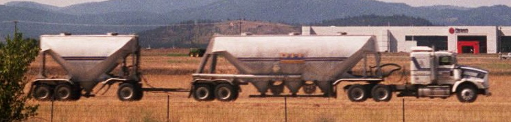 truck, semi-trailor and small trailer (pup) in Idaho